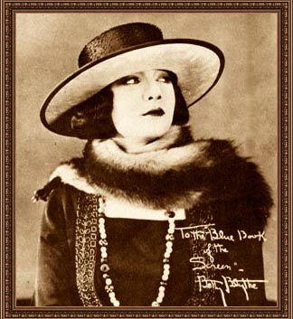 Publicity photo of Betty Blythe from The Blue Book of the Screen by Ruth Wing, editor